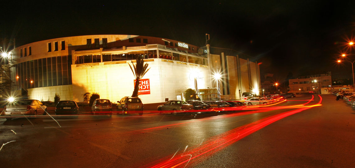 Abdoun Mall at night